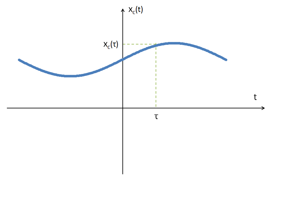 Exemple d'un signal continu dans la théorie de la modélisation des systèmes.